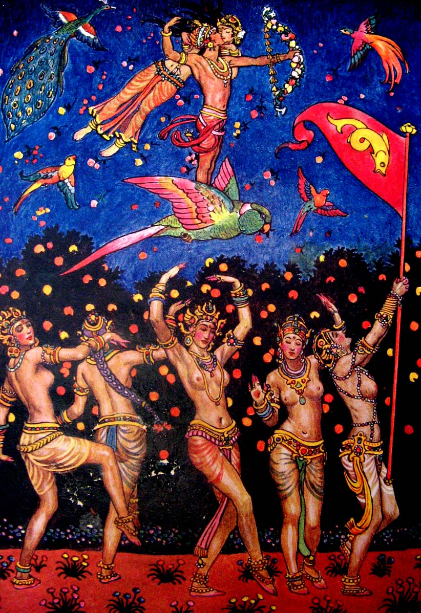 Byam Shaw is famous for his luscious illustrations for The Garden of Kama by Laurence Hope aka Adela Florence Nicolson. The book, published in 1914 by William Heinemann, London, is a collection of love poems which were not translated from Indian literature as commonly thought; instead they were originals written by Nicolson in a time when it was difficult for a female writer to publish such texts, hence the pseudonym.